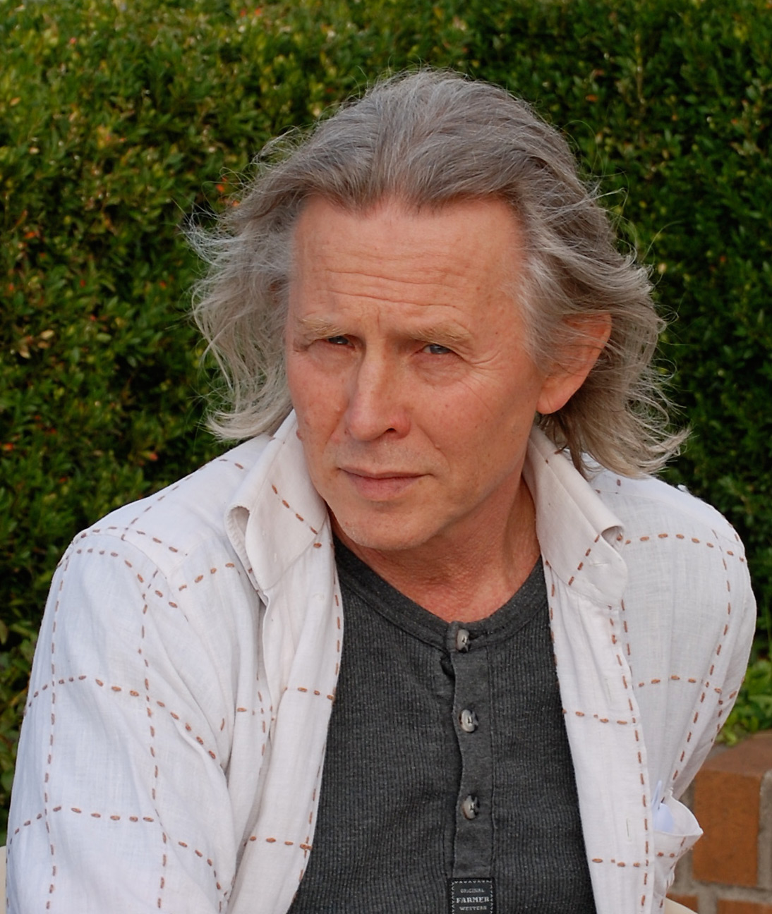 Wincenty Dunikowski-Duniko